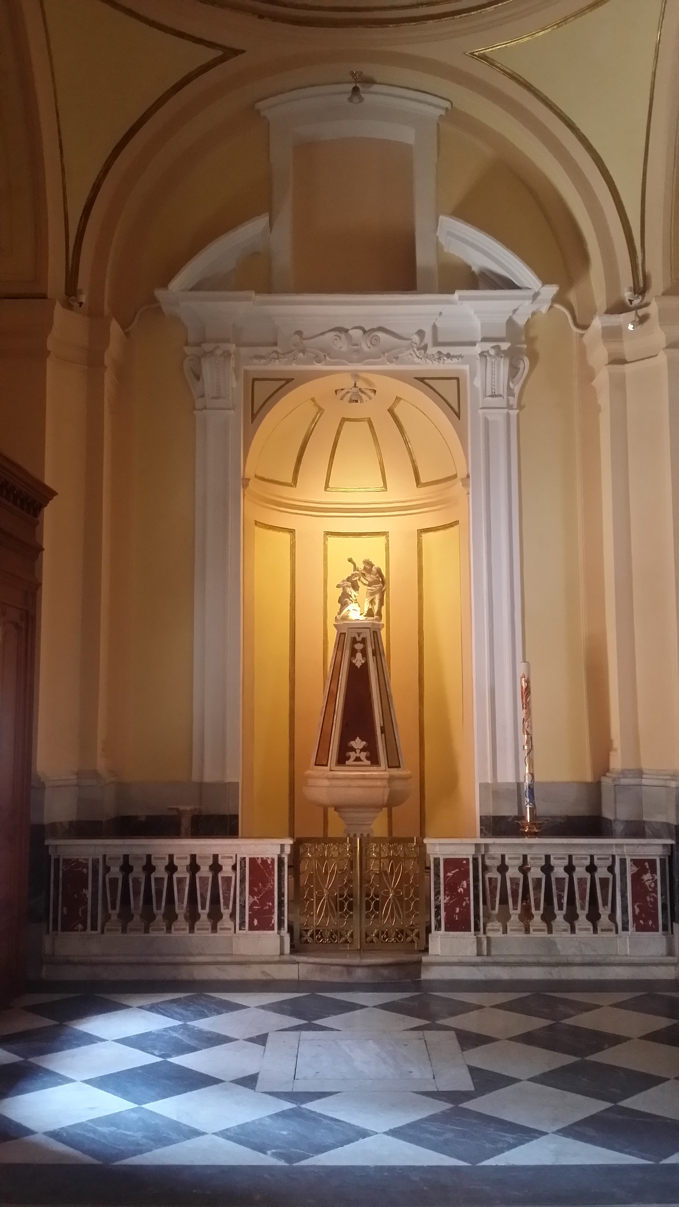 baptismal font of the collegiate church of San Giovanni Battista